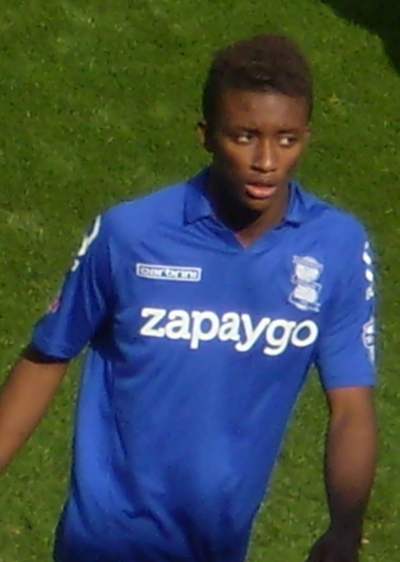 Demarai Gray of Birmingham City F.C. during a match at Brentford in August 2014